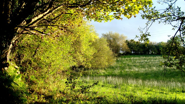 Hedgerow of Hazel & Sycamore Autumnal evening along the Bluestack Way walking route.